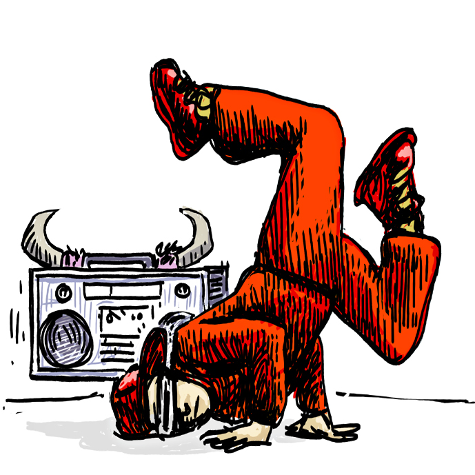 PNG version of Image:Breakdance oldschool.jpg. Used as a userbox-logo at the English Wikipedia.